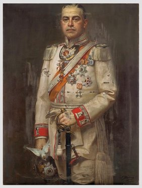 Prince Gottfried von Hohenlohe